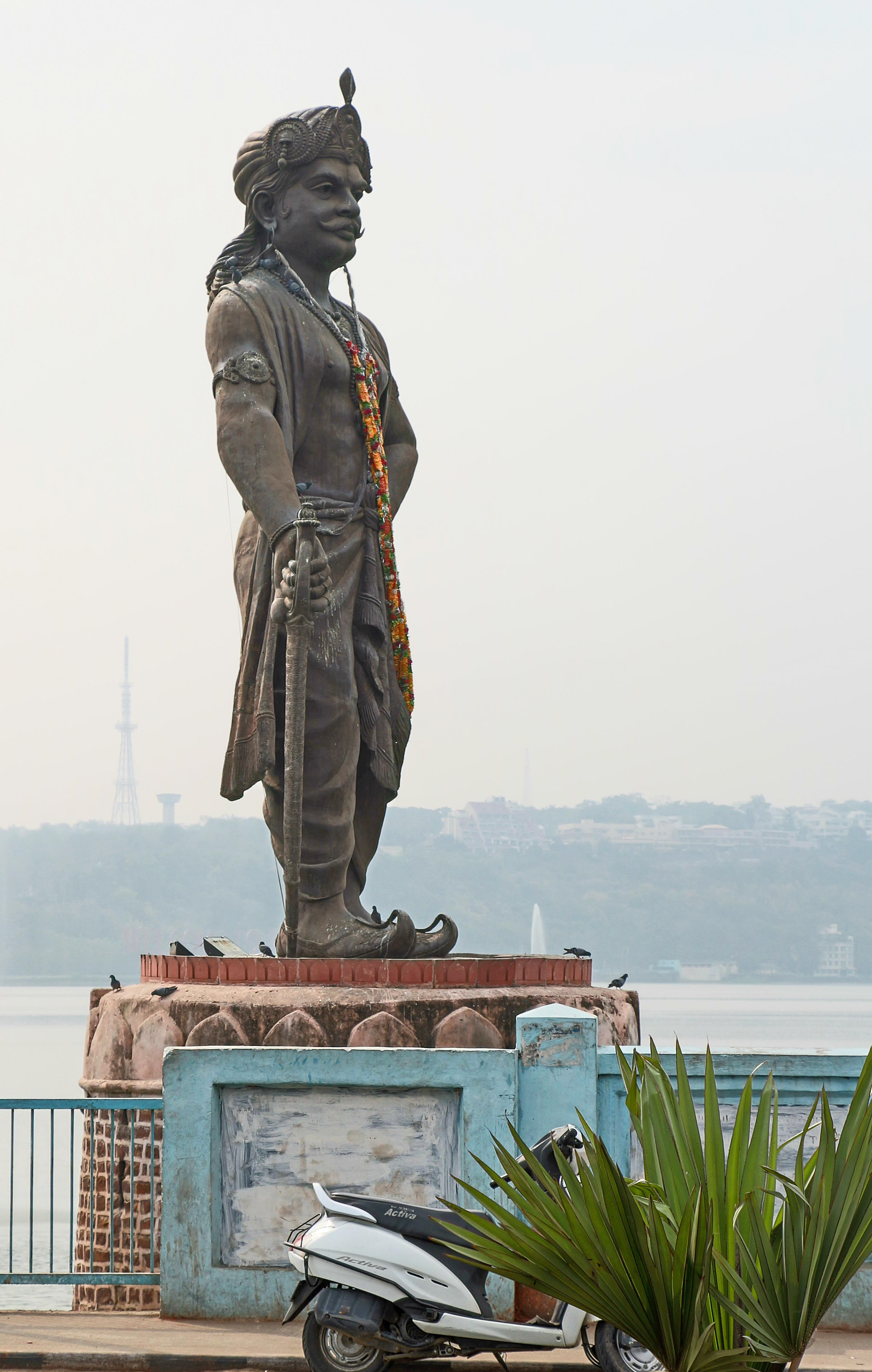 Statue of Raja Bhoja in the Upper Lake in Bhopal, India